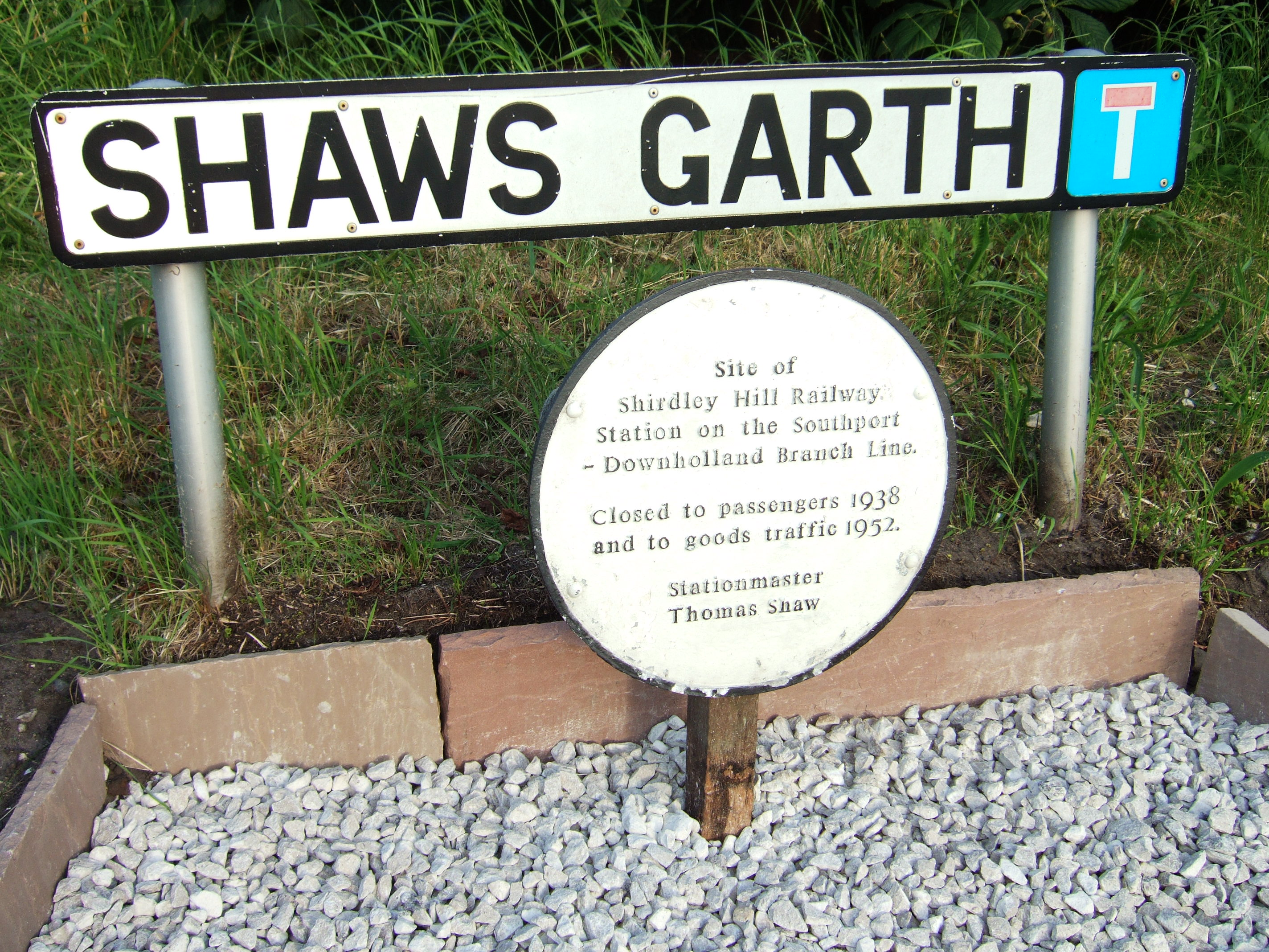 Plaque marking the site of Shirdley Hill railway station, situated on the corner of Shaws Garth, Shirdley Hill, in the civil parish of Halsall, West Lancashire.